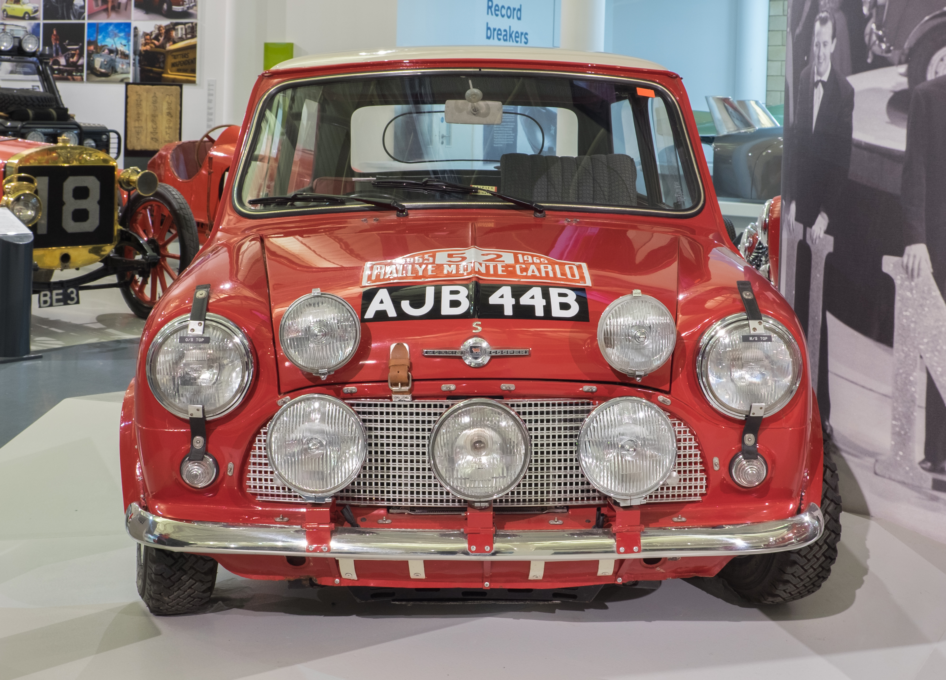 A 1964 Mini Cooper S. This car, which was one of the cars prepared by the BMC competitions department, won outright victory in the 1965 Monte Carlo Rally. It was crewed by Timo Makinen and Paul Easter. This vehicle is kept at the British Motor Museum, Gaydon, UK.